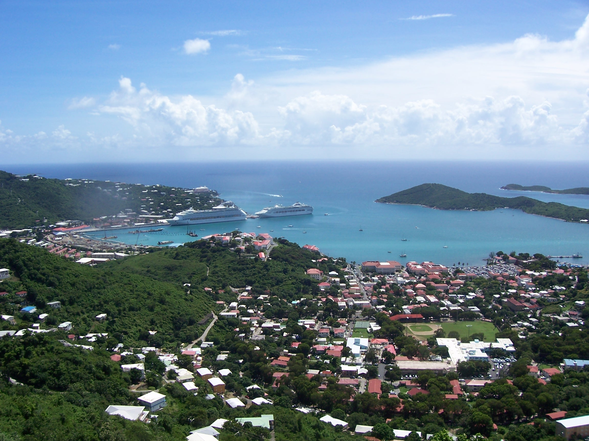 Explorer of the Seas and Sea Princess at Charlotte Amalie, St. Thomas, US VI. Photography taken by JuanPDP on 07-Oct-2005